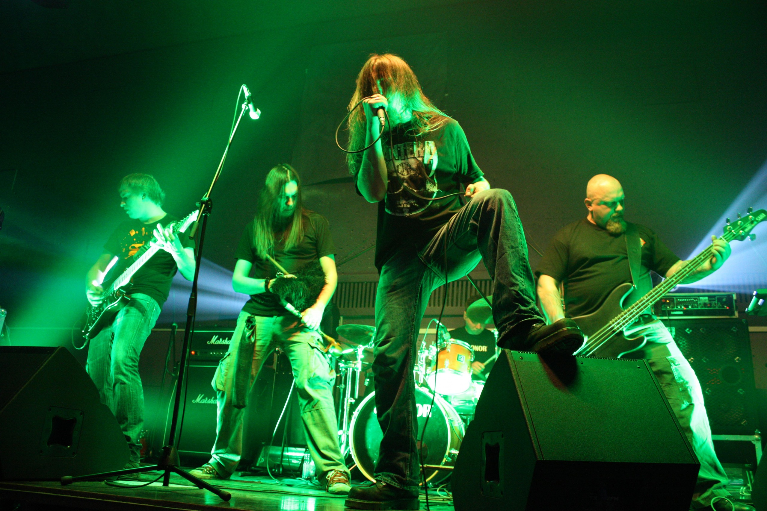 Folk metal band Litvintroll on stage